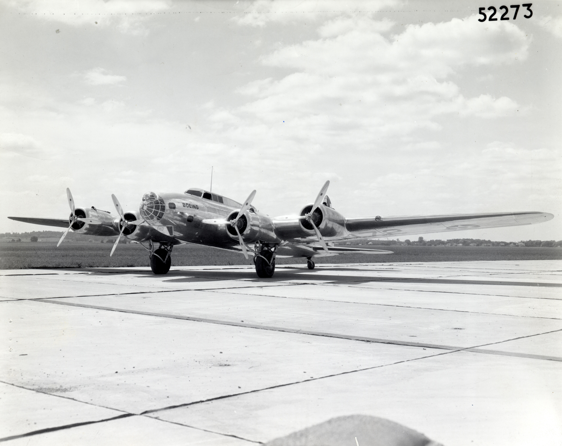 Boeing XB-17 (Model 299). (U.S. Air Force photo)